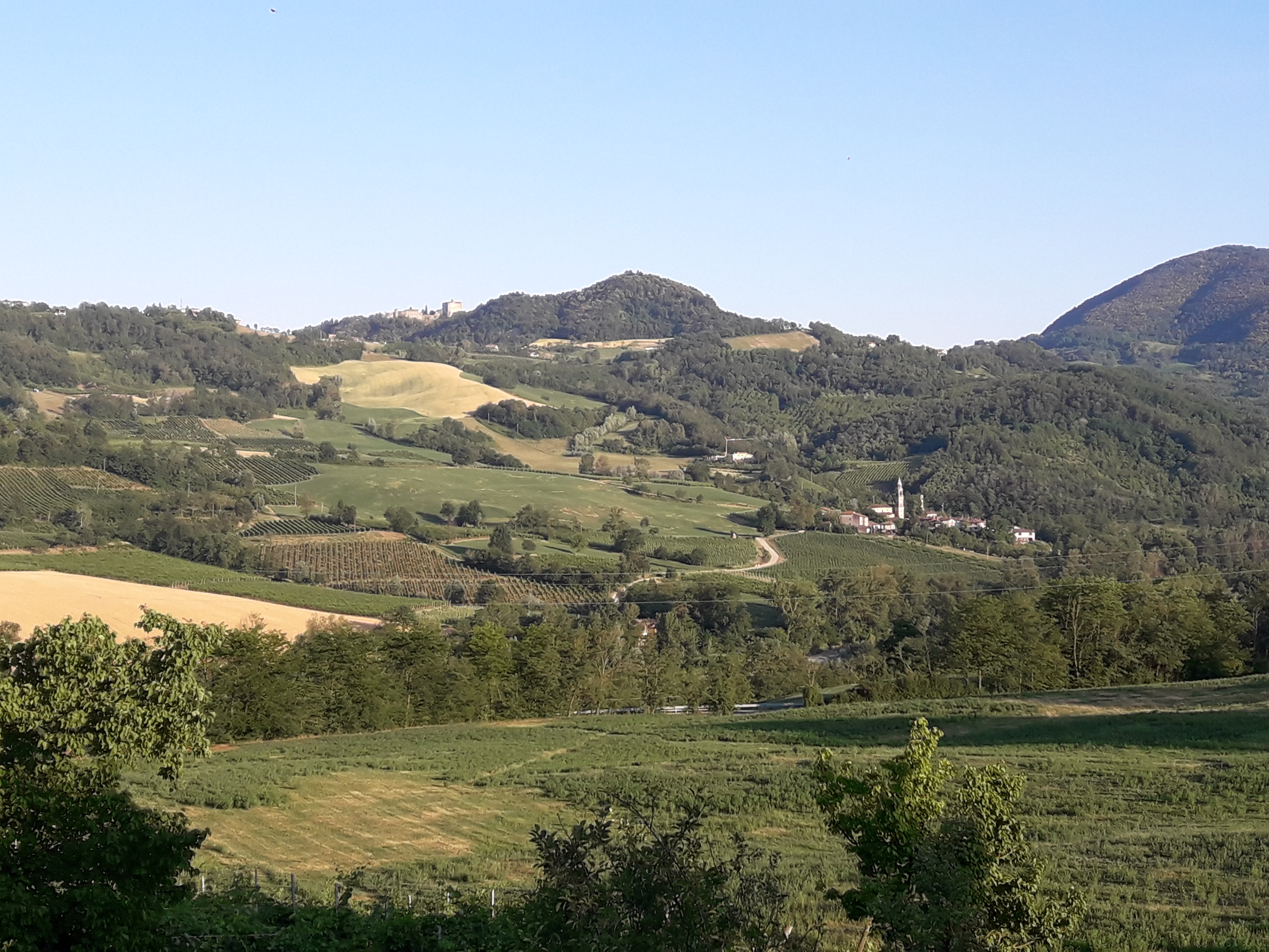 Casanova, municipality of Pianello Val Tidone, Piacenza, Italy, saw from the opposite bank of the river Tidone.